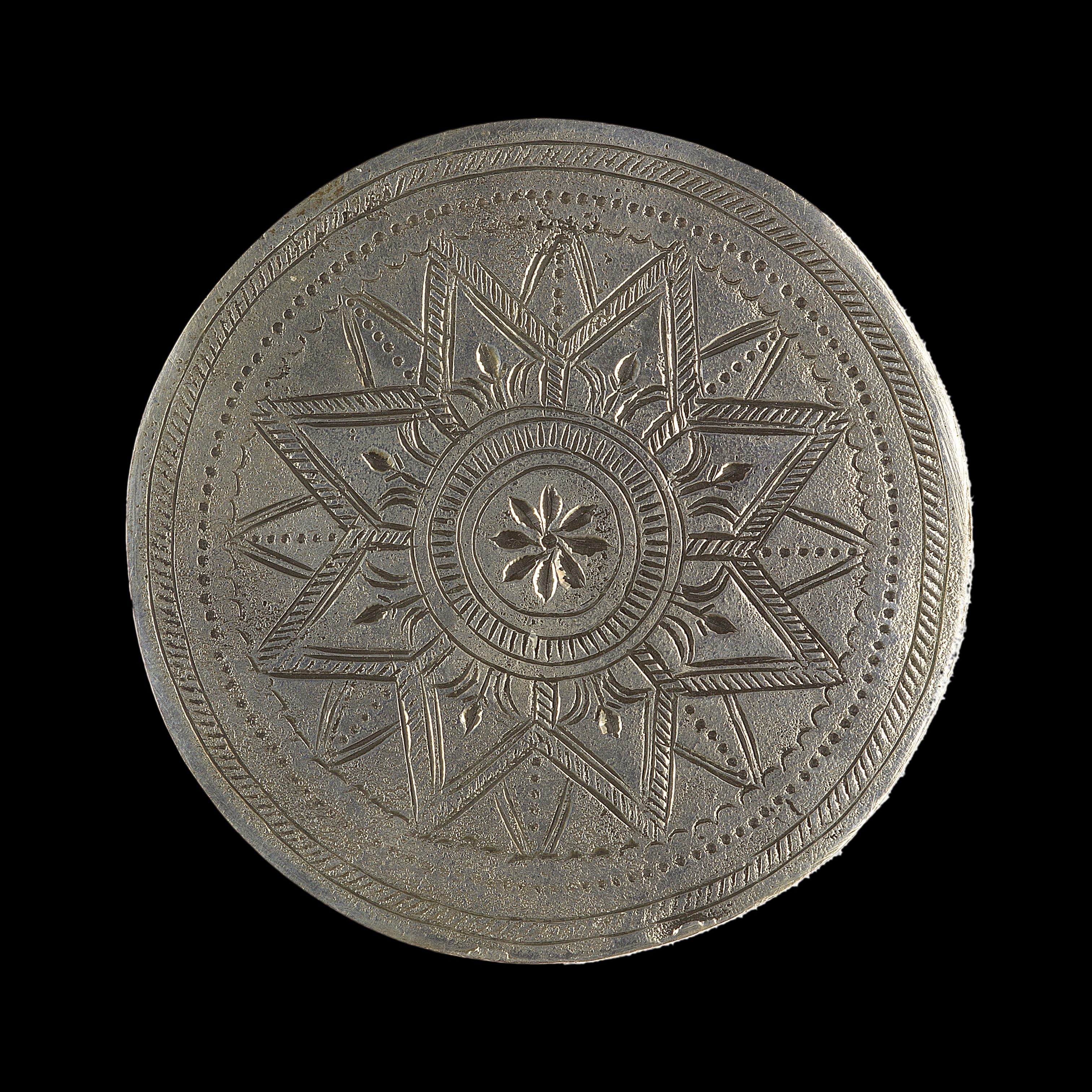 engraved round ring Population : Siwa Oasis Egypt. Collector and collection: Pierre-Henri Giscard, Institut des déserts Date of collection: 20th century date QS:P,+1950-00-00T00:00:00Z/7 Materials: silver Size : 7,0 x 7,0 x 2,0 cm